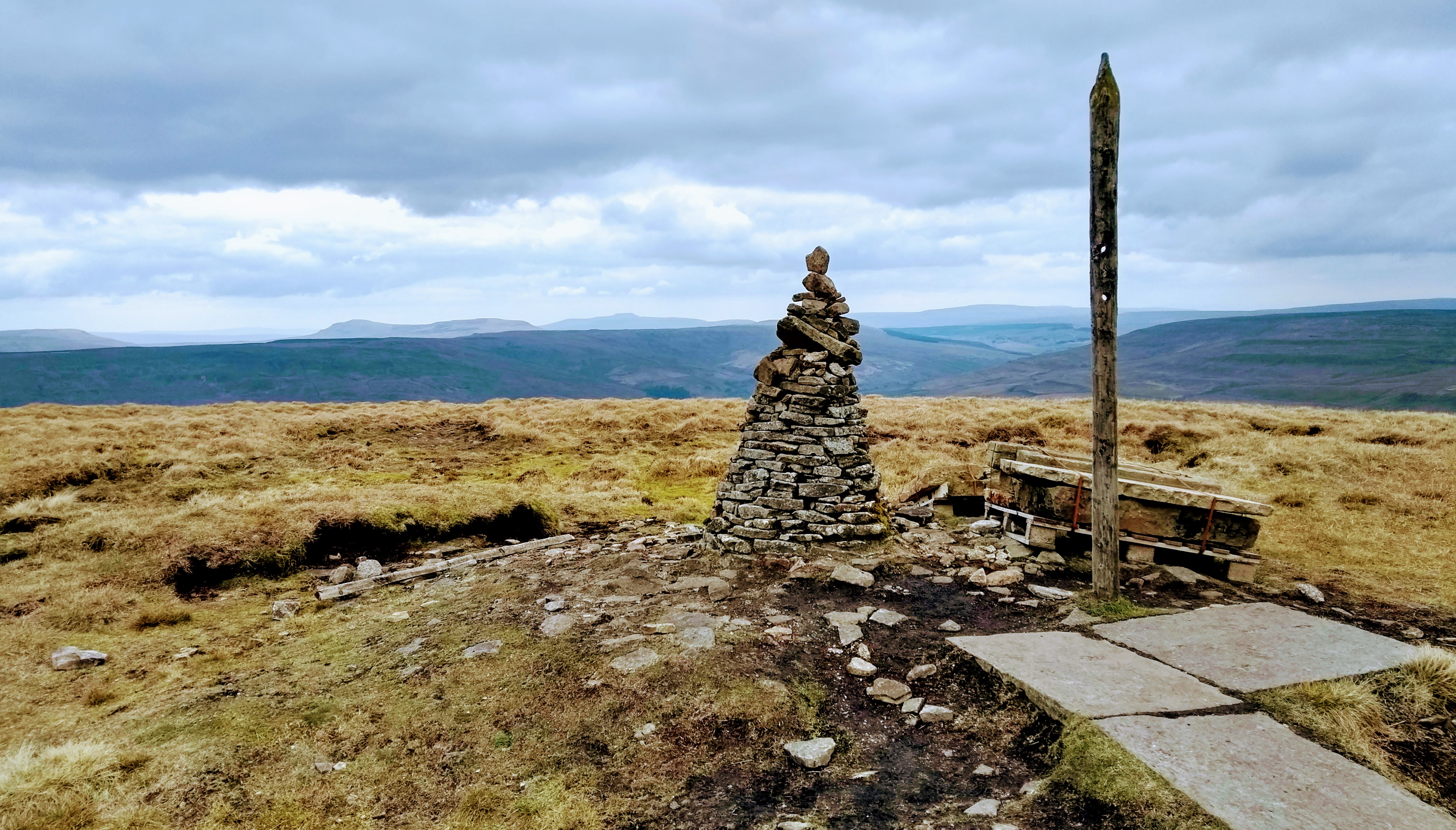 Buckden Pike summit facing west, with views to Pen-y-ghent, Ingleborough and Whernside.